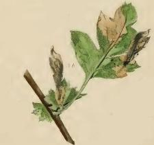 Stainton’s Natural History of the Tineina (1855–1873): Coleophora siccifolia hawthorn leaves eaten by the larva, with two cases attached